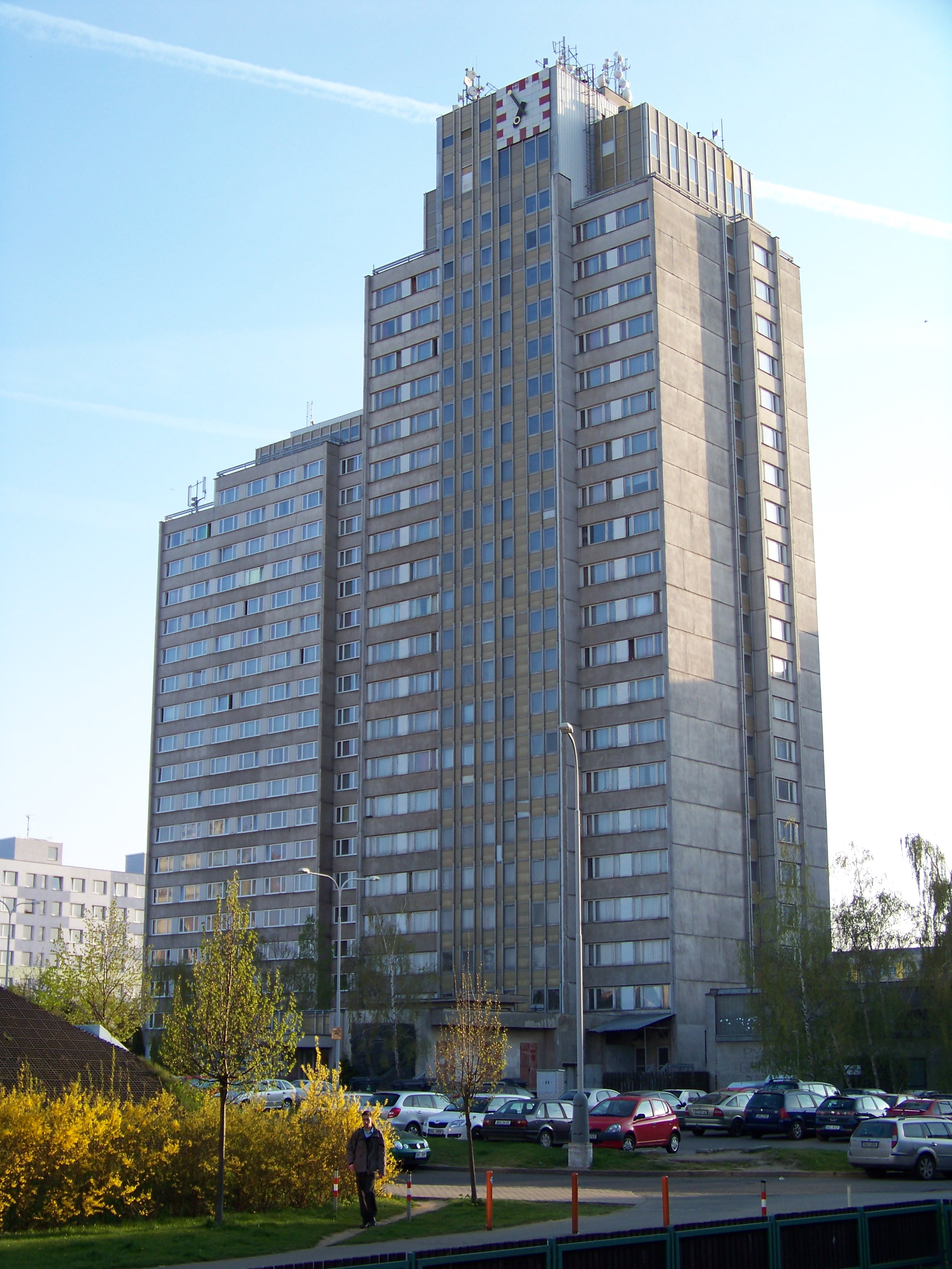 Háje, Prague, the Czech Republic. Háje Housing Estate, Hotel Kupa. - Google Maps - Google Earth